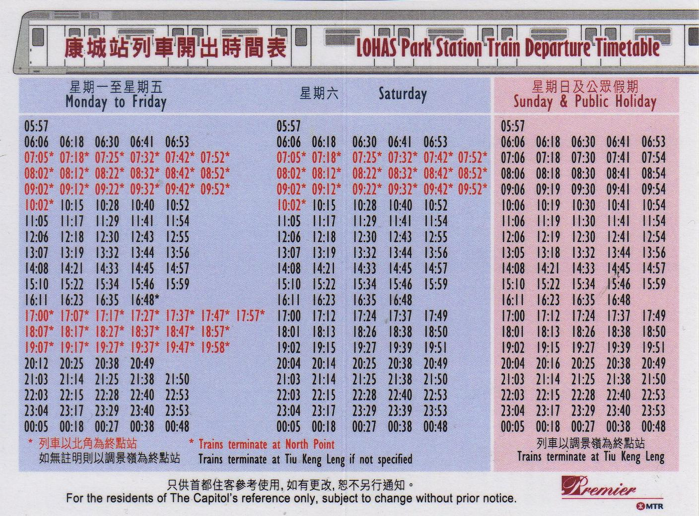 Lohas park time table